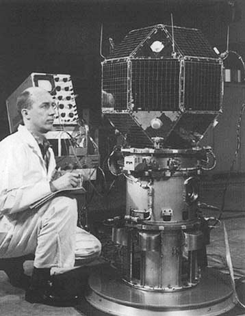 Lincoln Laboratory launched LES-1 in 1965